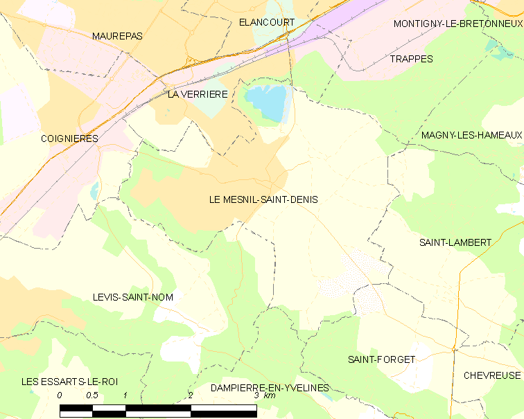 Map of French municipality Le Mesnil-Saint-Denis